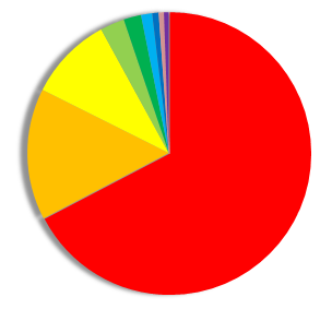 Expressed as a pie chart in the Tokyo gubernatorial election in 2012, the number of votes for each candidate. explanatory notes ■ - Naoki Inose ■ - Kenji Utsunomiya ■ - Shigefumi Matsuzawa ■ - Takashi Sasagawa ■ - Yoshiro Nakamatsu ■ - Shigenobu Yoshida ■ - Tokuma ■ - Mac Akasaka ■ - Masaichi Igarashi